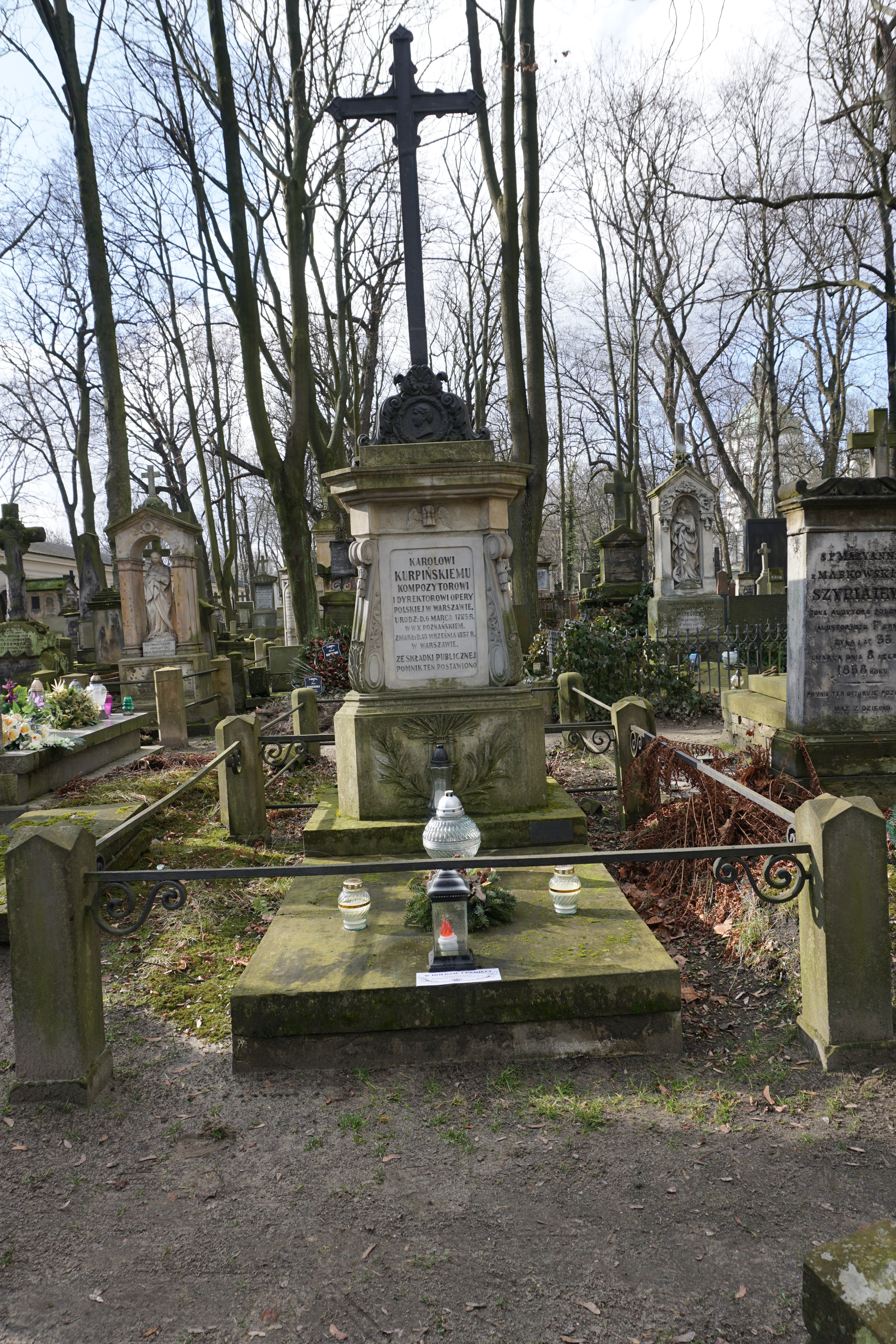 The grave of Karol Kurpiński at the Powązki Cemetery (section 158, row 3, grave 19, 20)